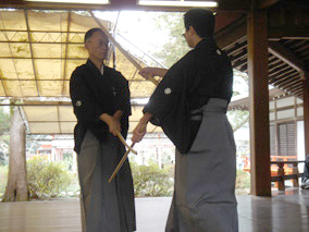 Demonstration of Niten Ichi Ryu at the at the new year's ceremony in the Usa shinto shrine, in Oita Prefecture, Japan